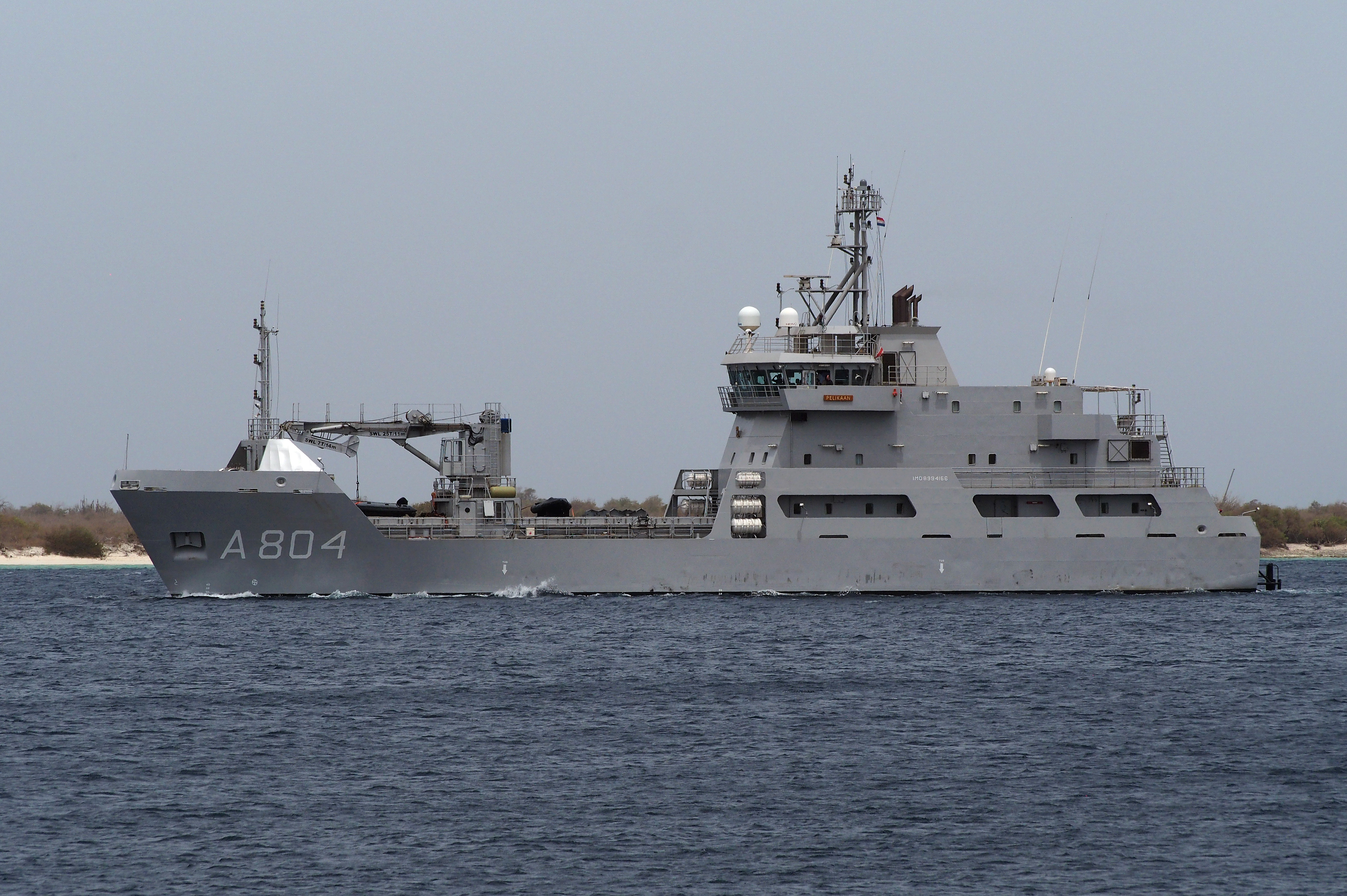 HNLMS Pelikaan. Dutch Naval support vessel off the coast of Klein Bonaire